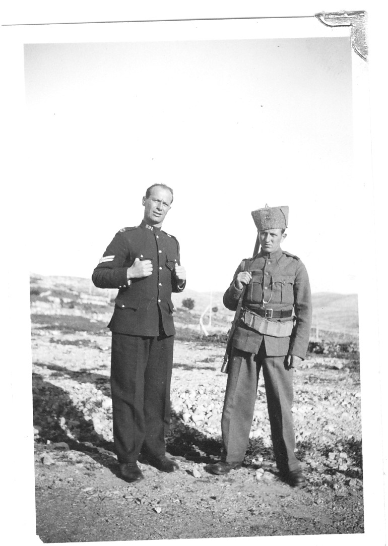 british mandatorial policman & ghaffir in palestine